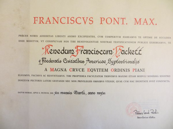 Certificate awarding US ambassador to the Holy See, Ken Hackett, the rank of Knight Grand Cross of the Order of Pius IX